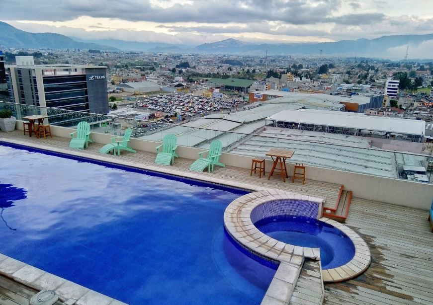 Air view of Quetzaltenango from Latam Hotel